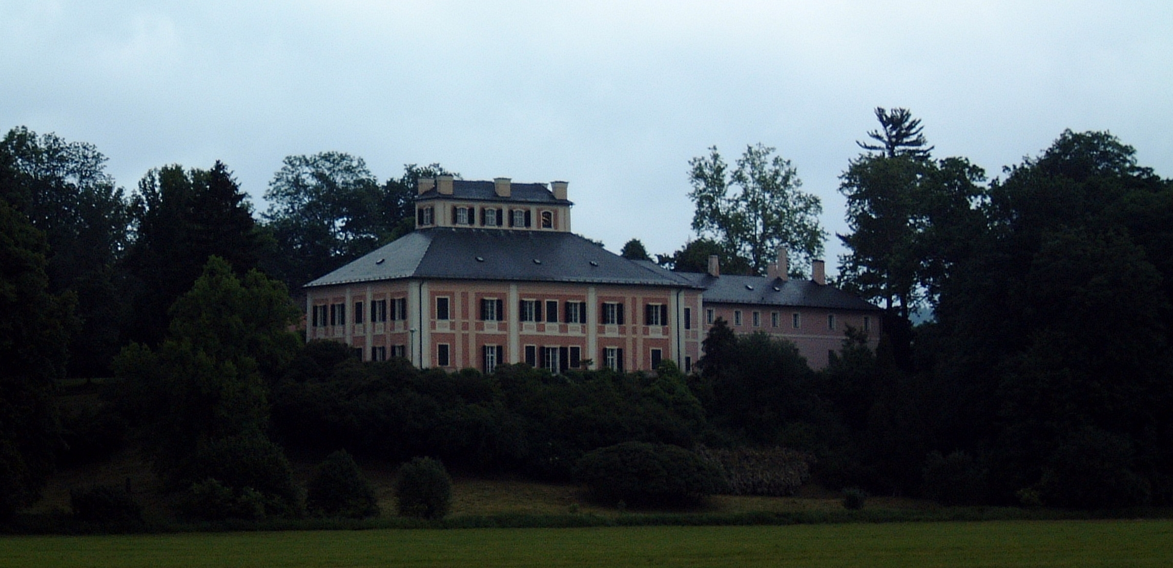 Ratibořice Castle, remodelled by order of Wilhelmine von Sagan in 1811